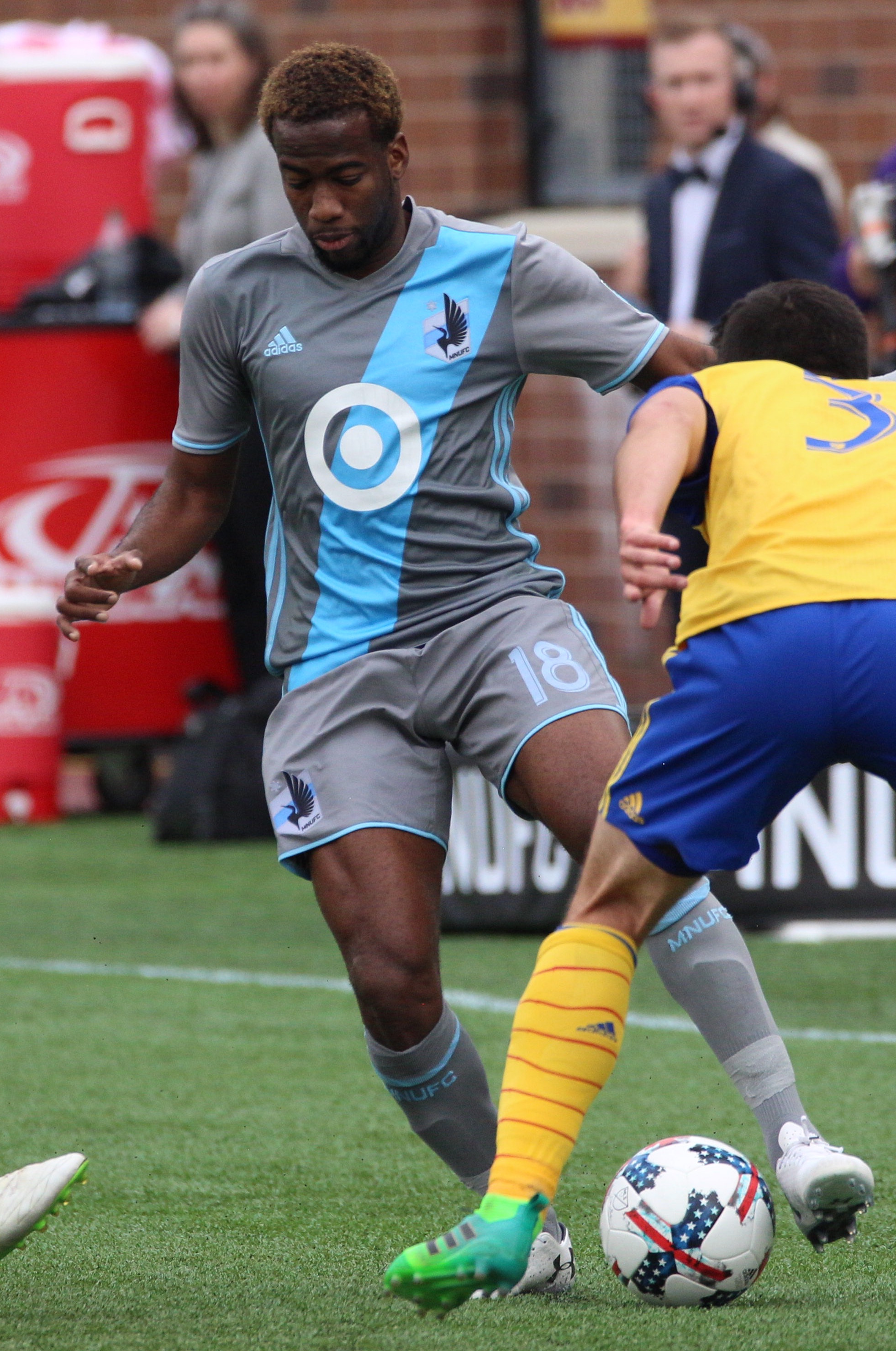 Kevin Molino of Minnesota United defended by Dillon Powers (left) and Eric Miller (3)